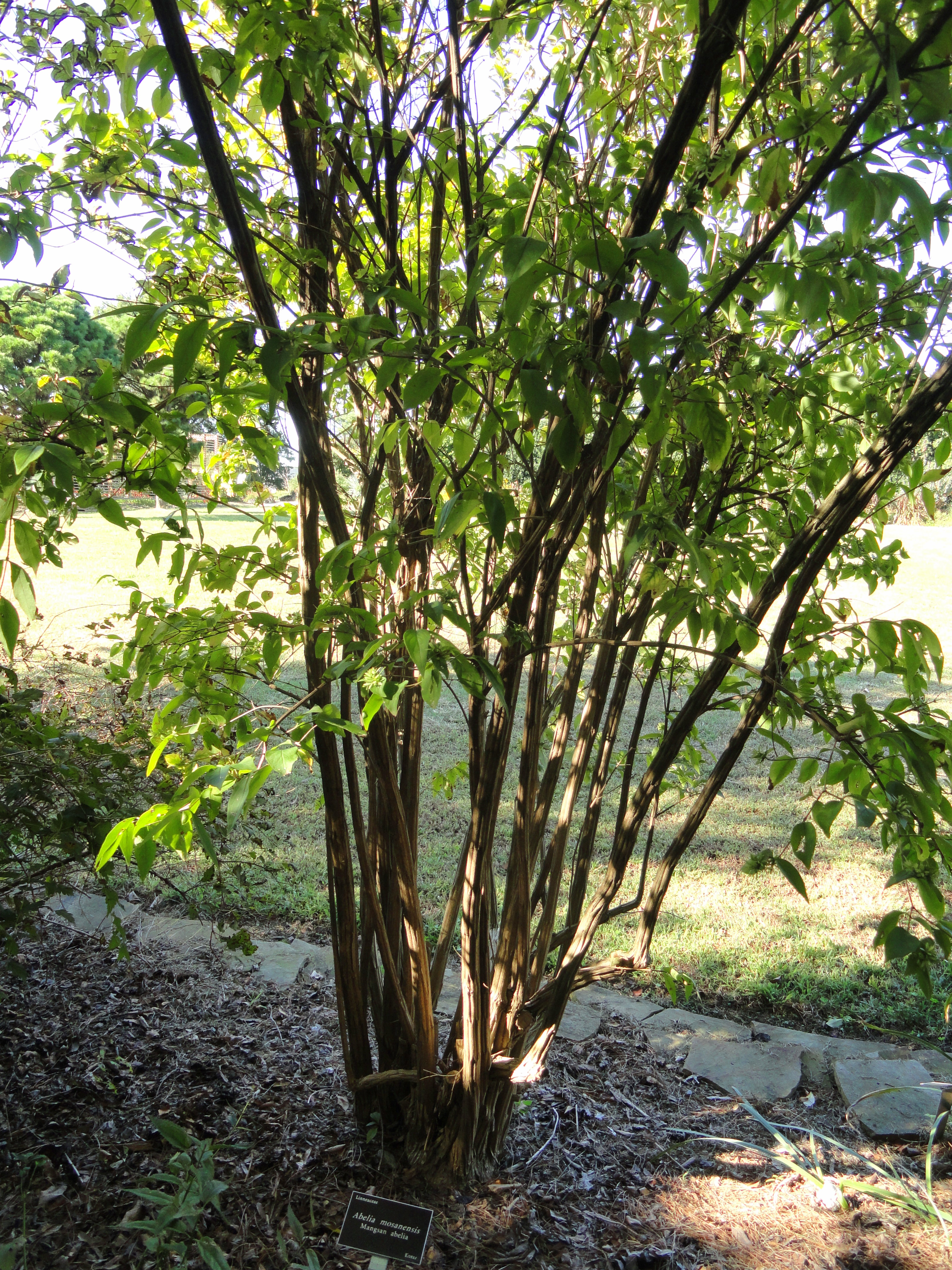 Abelia mosanensis specimen in the J. C. Raulston Arboretum (North Carolina State University), 4415 Beryl Road, Raleigh, North Carolina, USA.